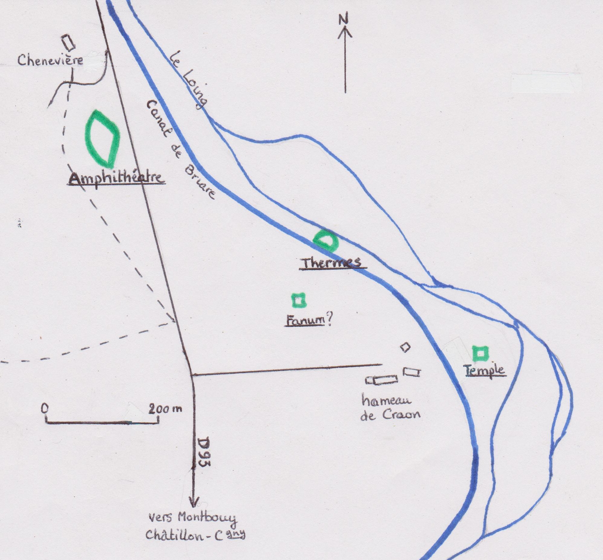 Sketch locating the various installations at the thermal site and amphitheatre of Chenevières near Montbouy, Loiret, France. The D93 road links Montargis to Châtillon-Coligny ; Monbouy is about 1 km to the south of the amphitheatre along that road.